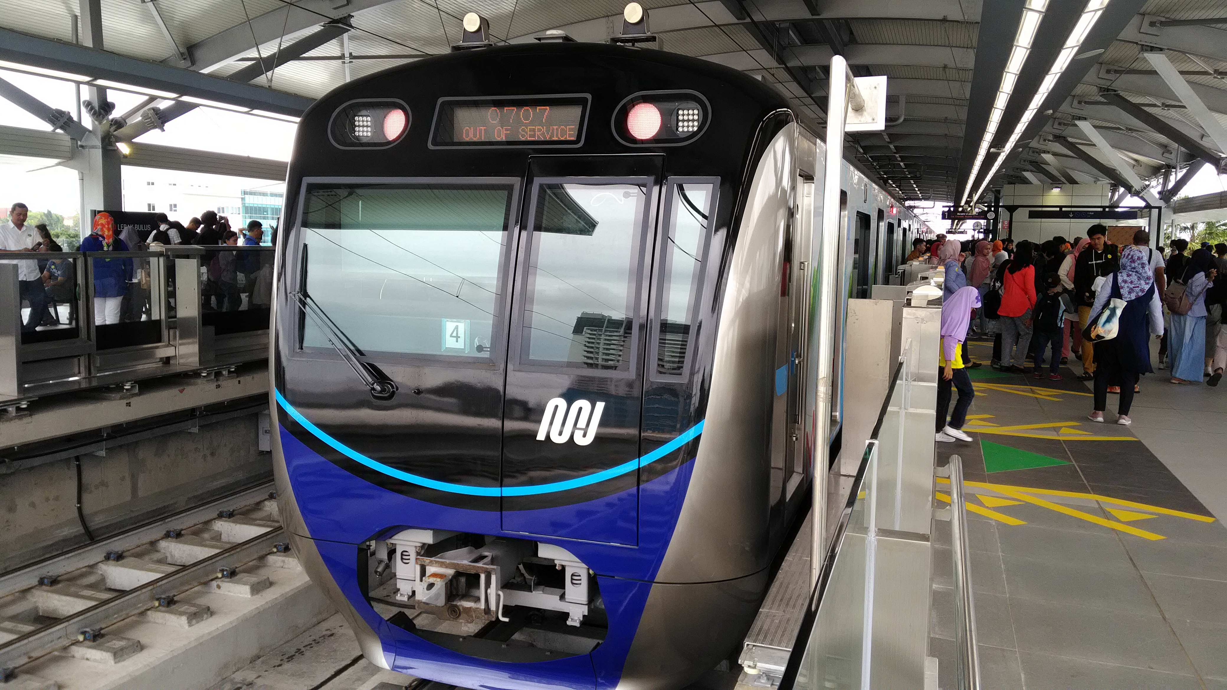 MRT Jakarta Train at Lebak Bulus MRT Station